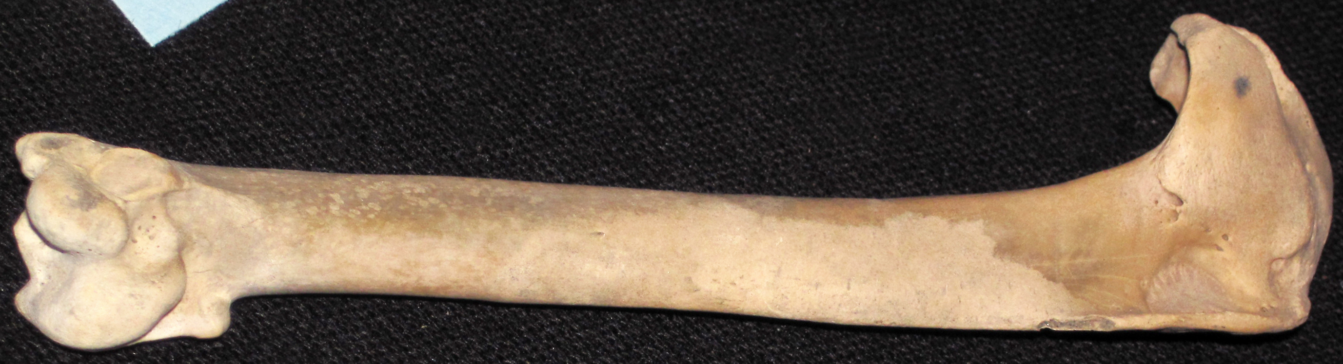 Pinguinus alfrednewtoni Olson, 1977 - fossil auk leg bone (left humerus) from the Miocene of North Carolina, USA. (collected September 1990) Birds are small to large, warm-blooded, egg-laying, feathered, bipedal vertebrates capable of powered flight (although some are secondarily flightless). Many scientists characterize birds as dinosaurs, but this is consequence of the physical structure of evolutionary diagrams. Birds aren’t dinosaurs. They’re birds. The logic & rationale that some use to justify statements such as “birds are dinosaurs” is the same logic & rationale that results in saying “vertebrates are echinoderms”. Well, no one says the latter. No one should say the former, either. However, birds are evolutionarily derived from theropod dinosaurs. Birds first appeared in the Triassic or Jurassic, depending on which avian paleontologist you ask. They inhabit a wide variety of terrestrial and surface marine environments, and exhibit considerable variation in behaviors and diets. The fossil bird leg bone shown here belonged to Pinguinus alfrednewtoni, an ancient, extinct relative of the great auk, which was a Holocene species. Classification: Animalia, Chordata, Vertebrata, Aves, Charadriiformes, Alcidae or Panalcidae Locality: quarry north of Aurora, eastern North Carolina, USA See info. on the great auk